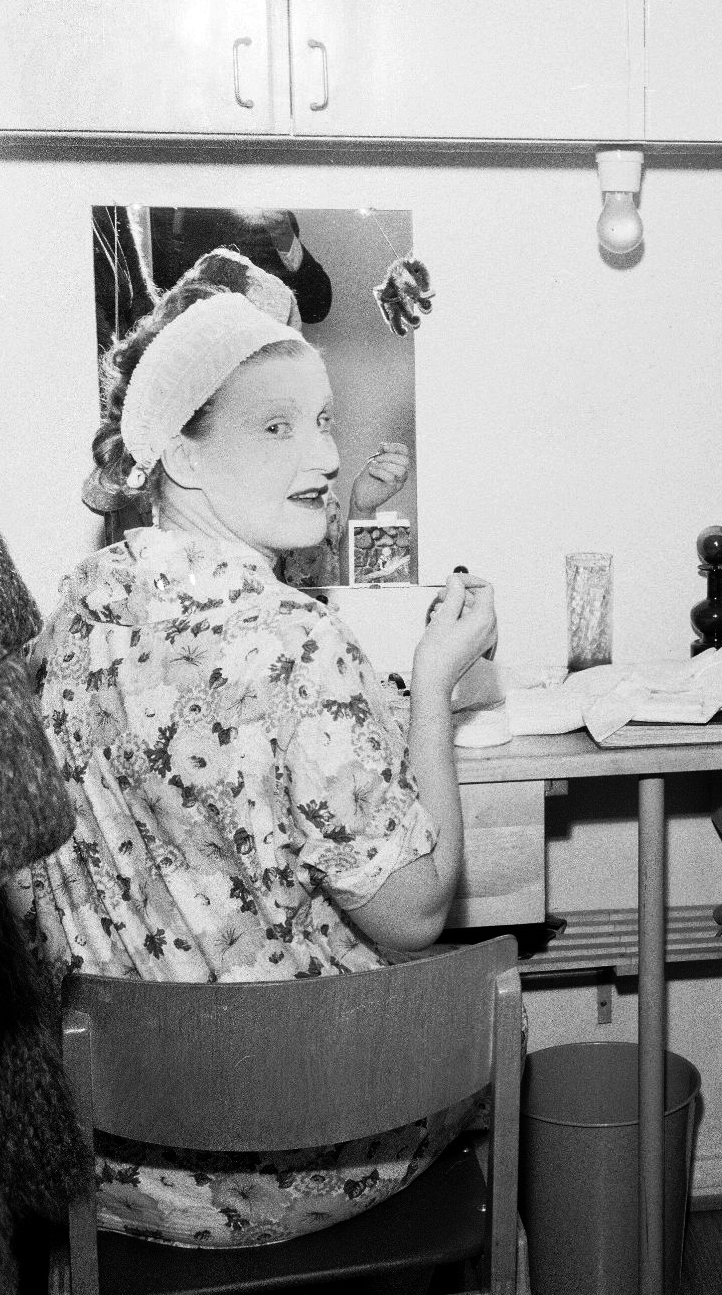 Photograph of the Finnish opera vocalist Marja Tyrkkö (1922–2000), at the dressing room of the Finnish National Opera.